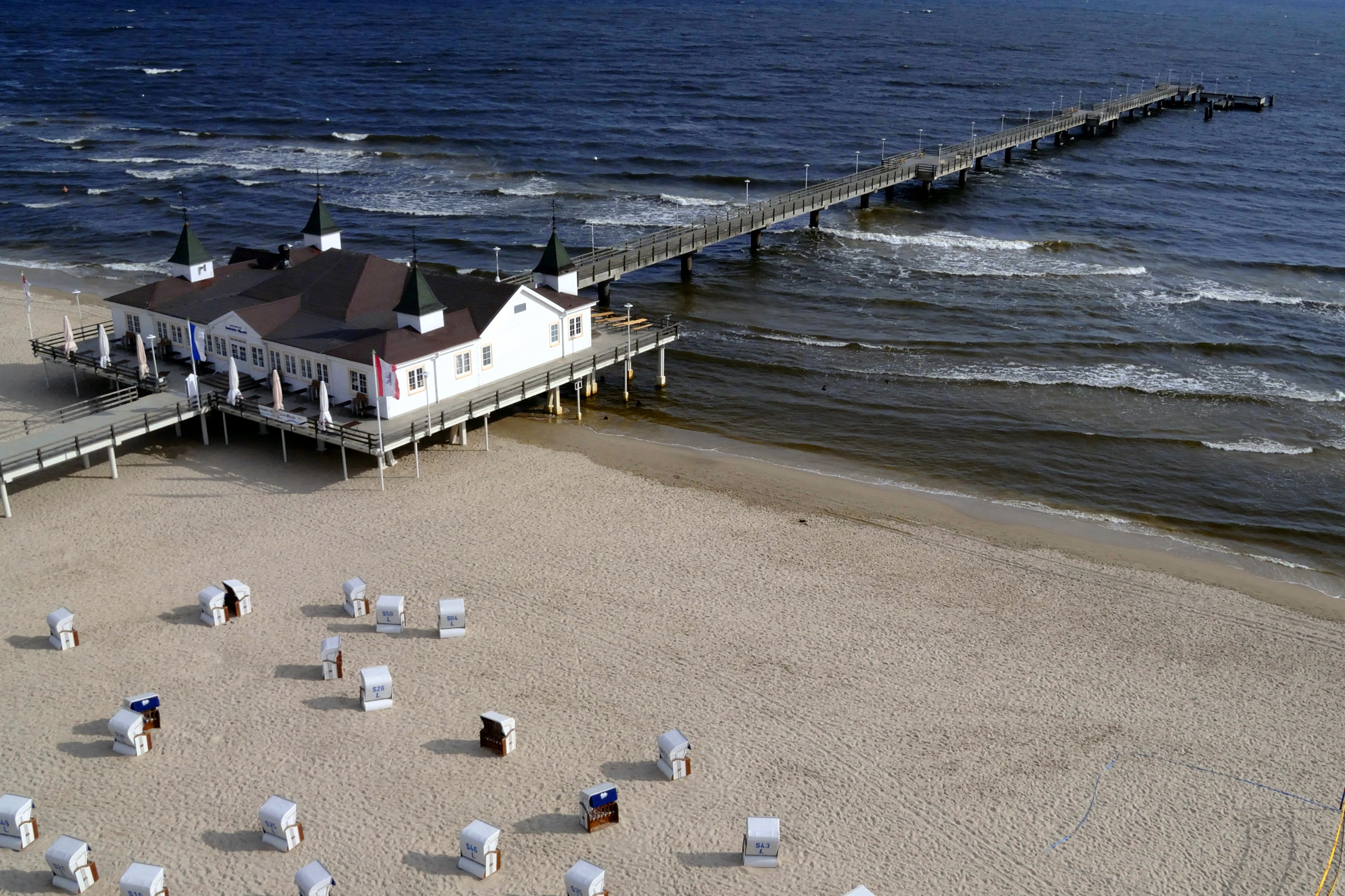 KAP (Kite Aerial Photography)